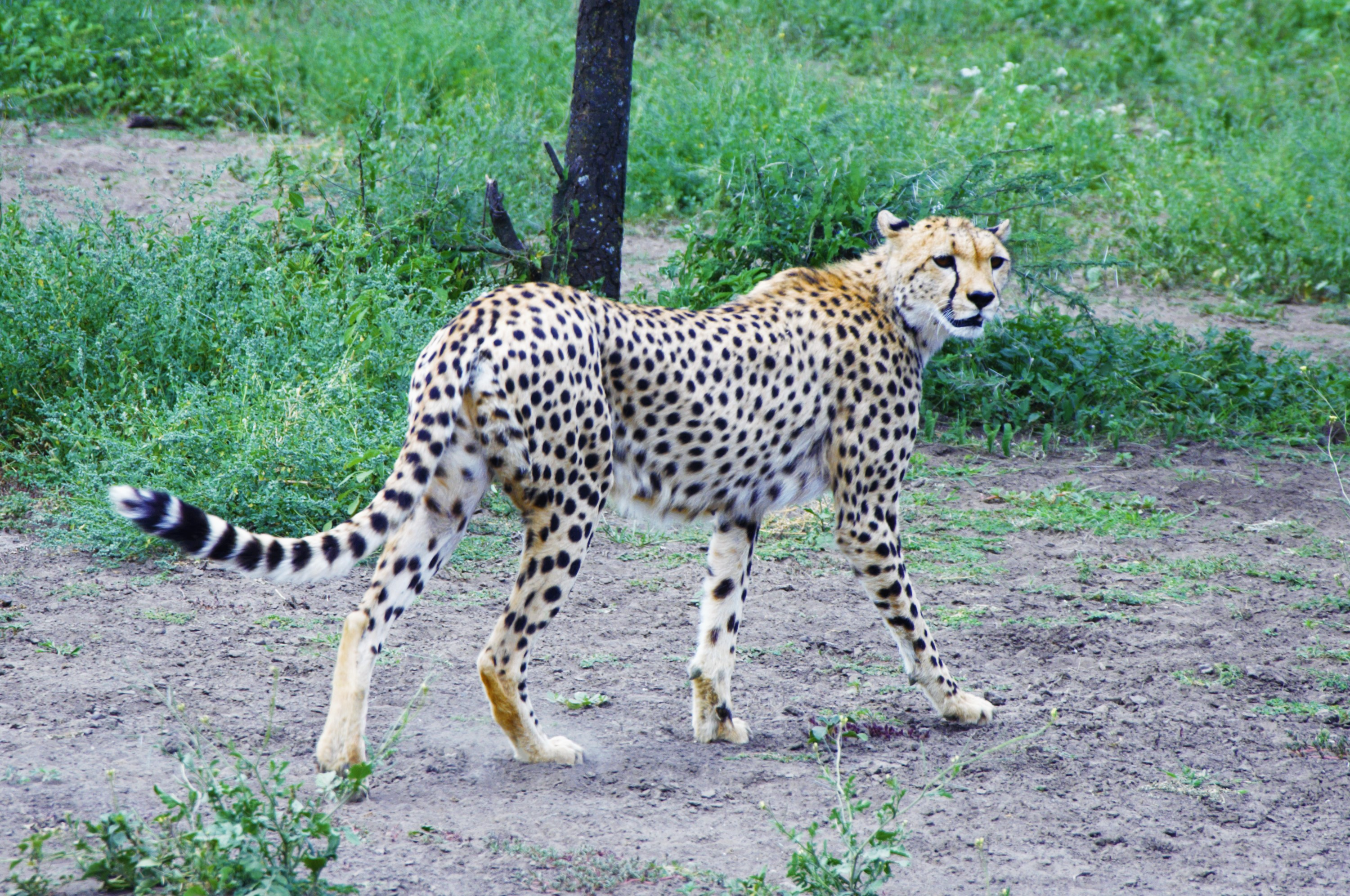 A cheetah in the Serengeti prairies. This photo has been taken by Prof. Chen Hualin.